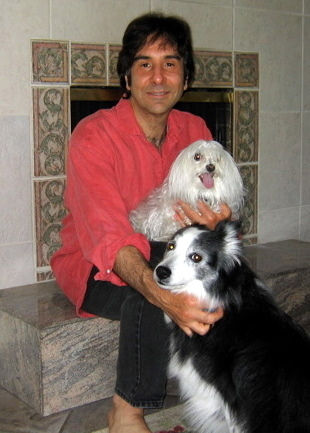 Gary Francione, Distinguished Professor of Law and Nicholas deB. Katzenbach Scholar of Law & Philosophy at Rutgers School of Law-Newark, with Mollie and Katie, who were rescued from a kill shelter